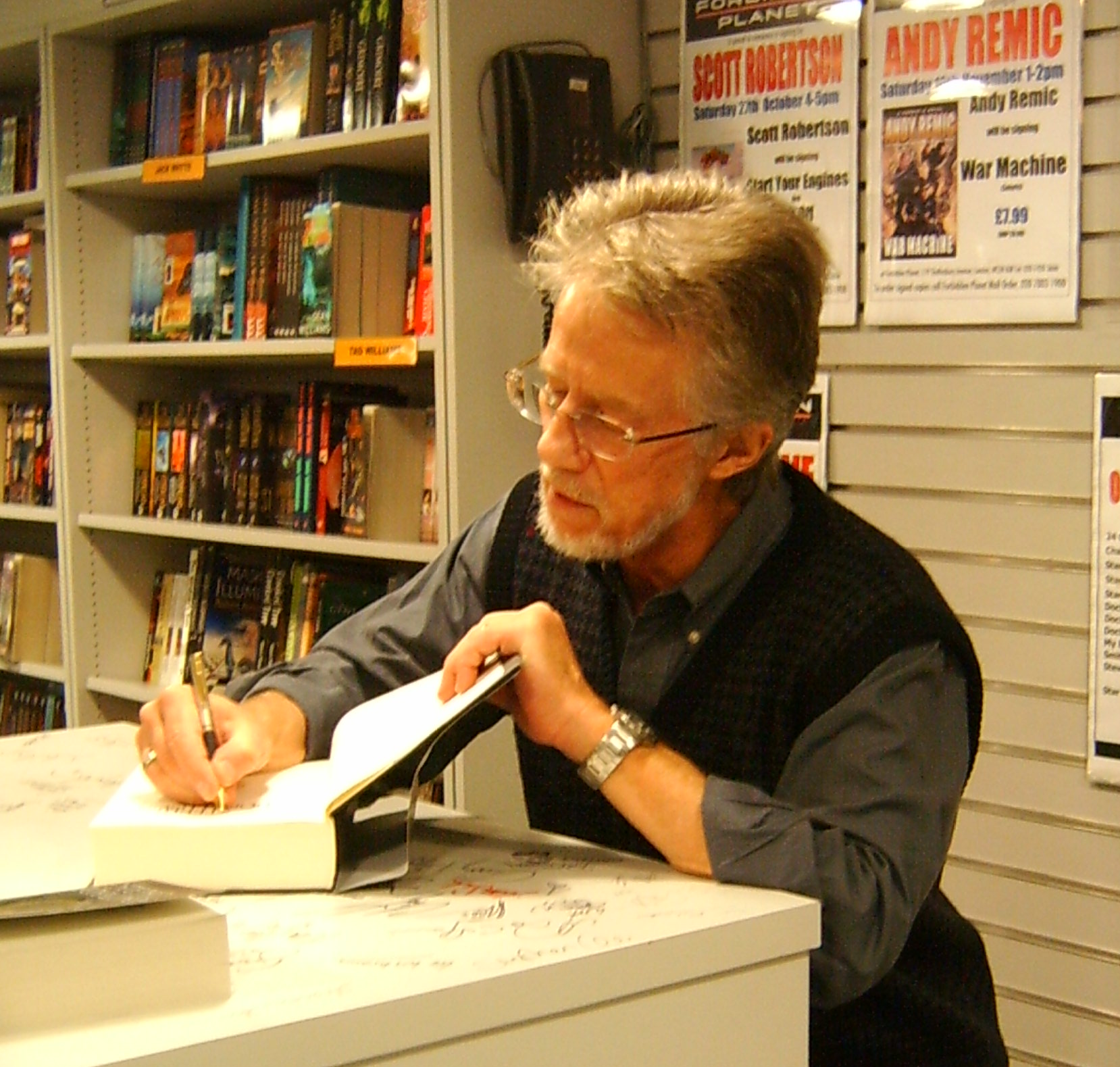 Stephen R. Donaldson on a 2007 book tour.